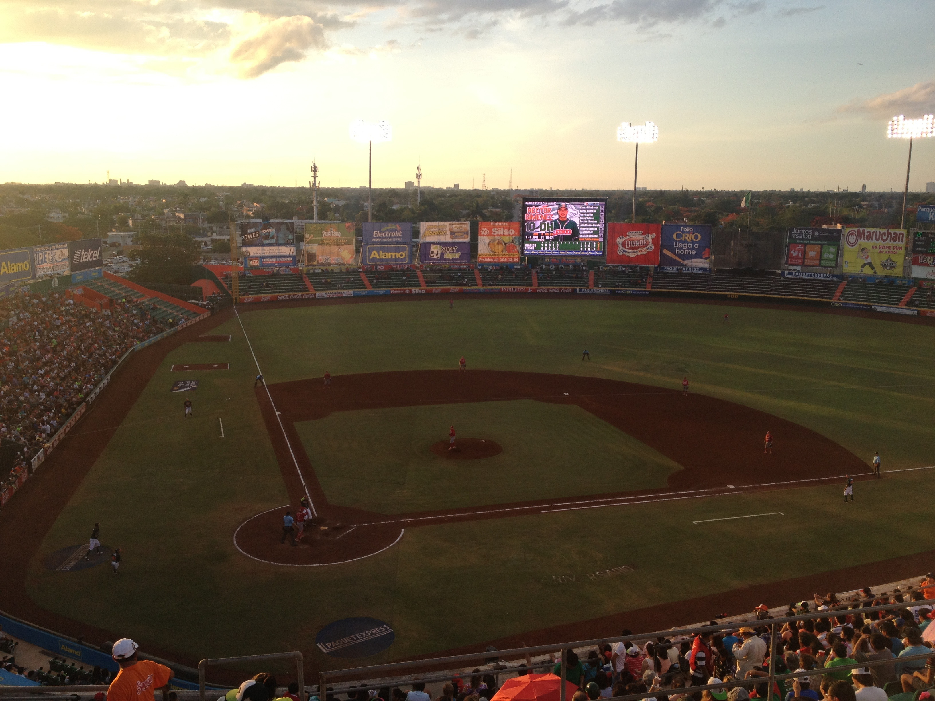 Kukulcán Alamo Park in a sunset. Leones de Yucatan vs Diablos Rojos de Mexico